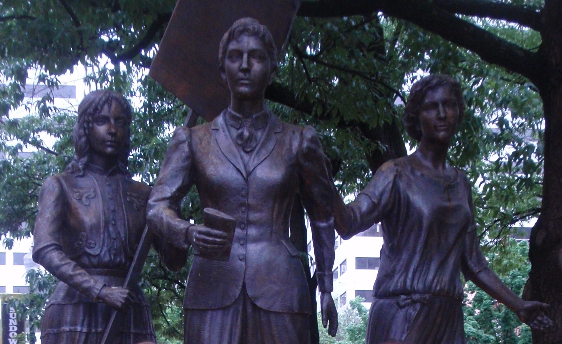 Thumbs up for suffragettes! The Tennessee Woman Suffrage Memorial is located at Market Square in downtown Knoxville, Tennessee. It honours Elizabeth Avery Meriwether, Lizzie French of Knoxville and Anne Dallas Dudley of Nashville and of Memphis.[2] The base of the sculpture features text on the campaign and a quote by Harriot Eaton Stanton Blatch